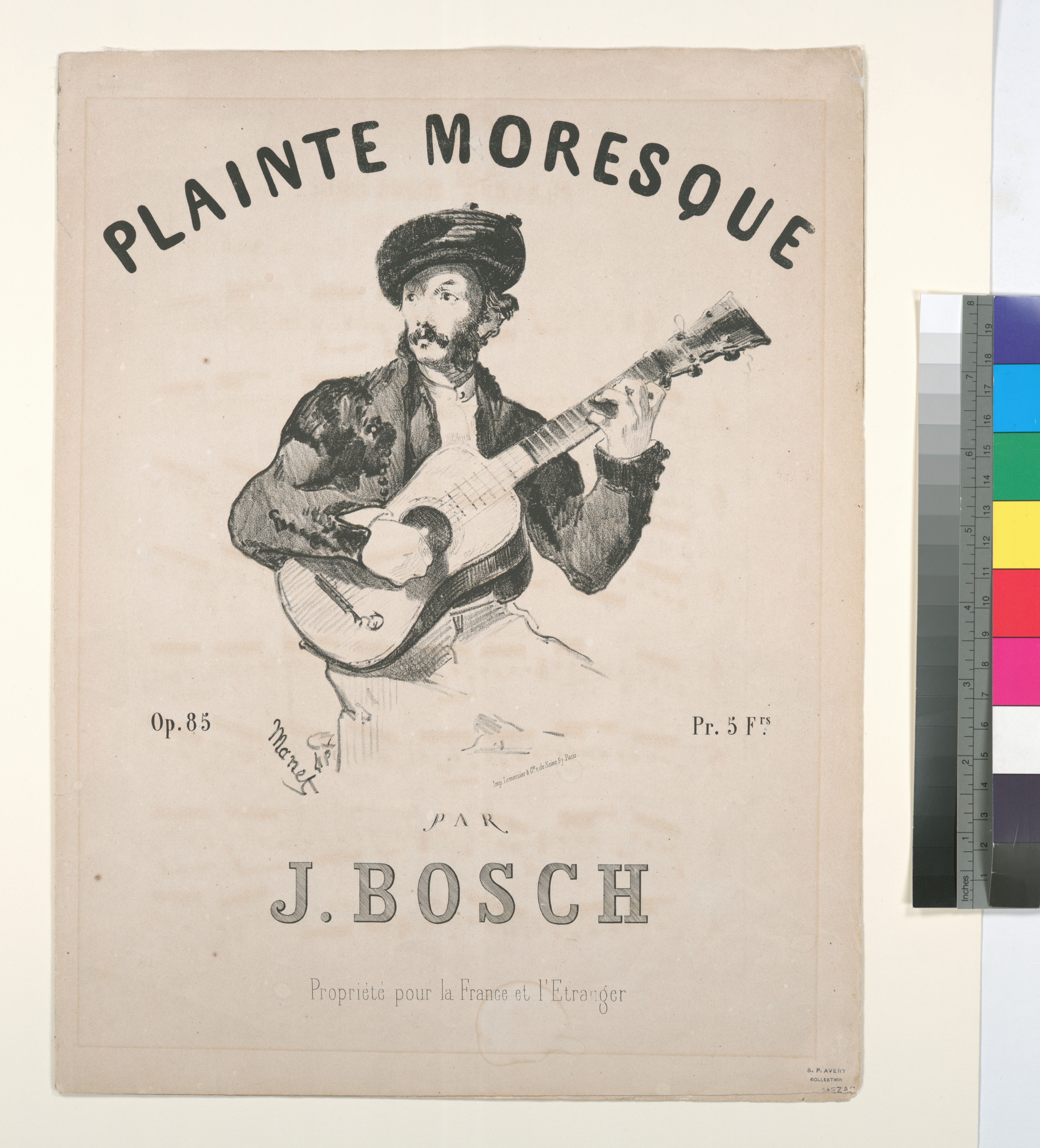 Plainte moresque Op. 85 by Jerome Bosch. Gift of Samuel Putnam Avery, 1900. MN77, MN83, MN84 & MN88 bear notes by Henri-Charles Guerard and were presumably acquired from him by George A. Lucas, acting as S.P. Avery's agent. MN90 is inscribed by Manet and Mallarme to Arthur O'Shaughnessy; a note by S.P. Avery indicates that he purchased it "at D.G. Rossetti's sale July 7 1882." Holdings checked in departmental copies of Etienne Moreau-Nelaton, Manet graveur et lithographe and Jean C. Harris, Edouard Manet: graphic works a definitive catalogue raisonne. Lithographs by Manet, including covers for sheet music by Zacharie Astruc and Jerome Bosch. Subjects include a portrait of Berthe Morisot, a cafe, probably the Cafe Guerbois, children, a raven and a theater audience. One print is an illustration for Stephane Mallarme's translation of The Raven by Edgar Allan Poe. S.P. Avery Collection. Some prints include notes in graphite by Henri-Charles Guerard or Samuel Putnam Avery. MN90 is signed by Mallarme and Manet and inscribed "A M. O'Shaunessy." Title and dates from Etienne Moreau-Nelaton, Manet graveur et lithographe. Admission is granted through application to the Office of Special Collections. Forms part of Samuel Putnam Avery Collection. Citation/Reference: M-N 78(II/II); G. 70(II/II); H. 29(II/II)